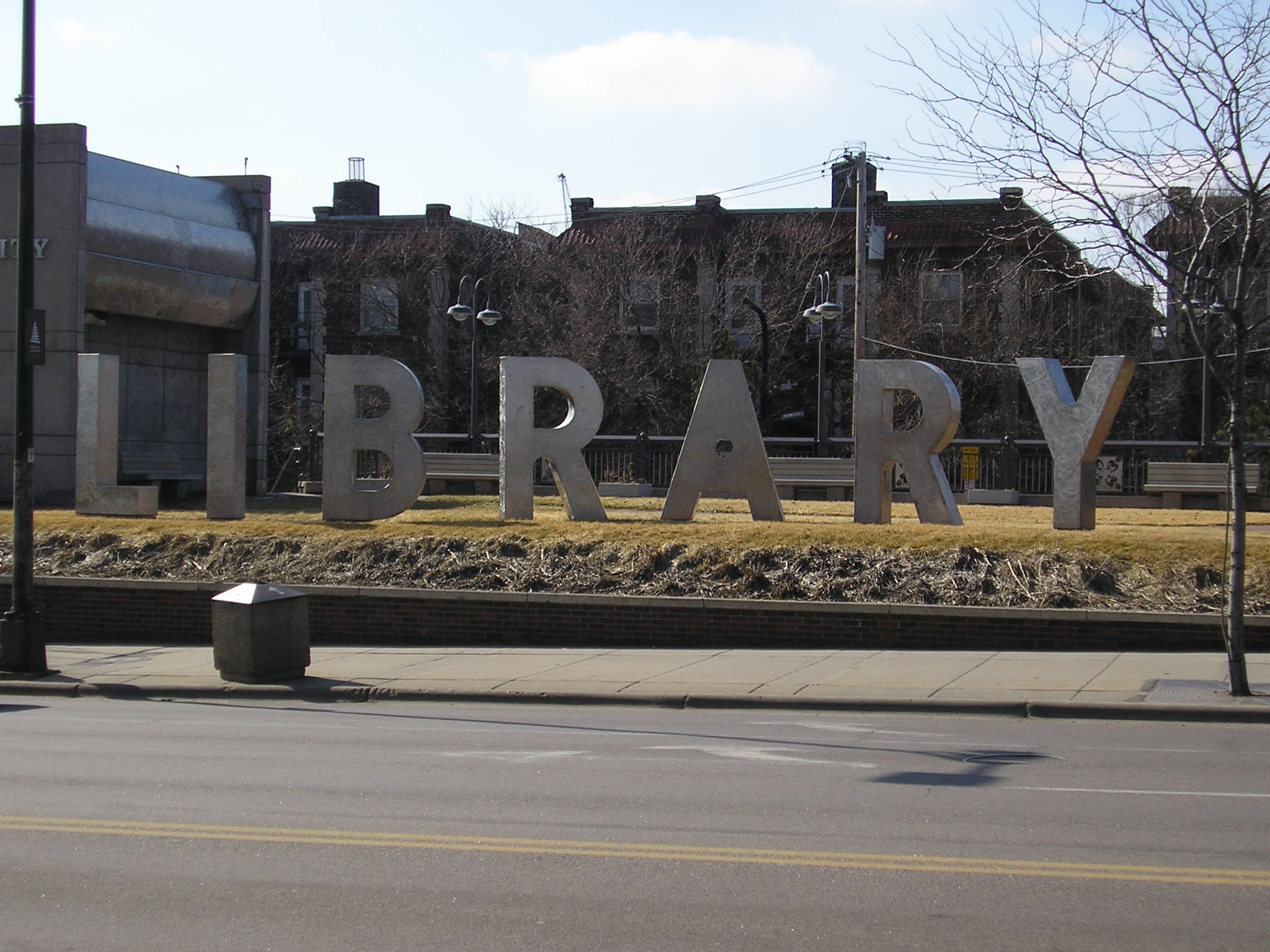 This picture shows the large metal letters on the park above the mostly subterranean library. Taken at the Walker Community Library in Minneapolis, Minnesota